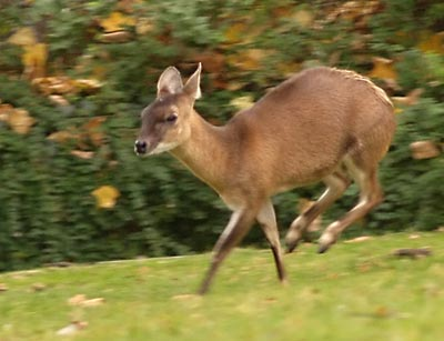 Female of Tetracerus quadricornis Photo taken in ZOO Berlin.